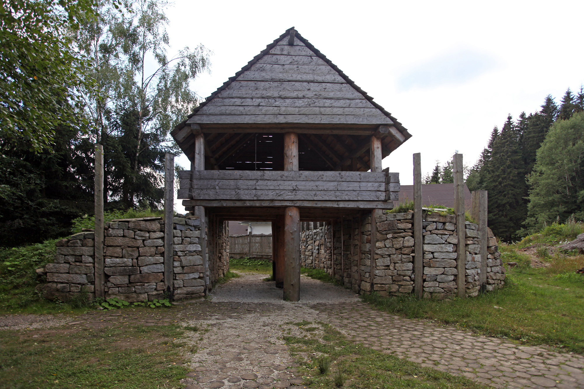 The Entrance Gate of Archeopark Prasily represents the reconstruction of the gate and fortification structures according to the findings at the Nevezice oppidum in Southern Bohemia.